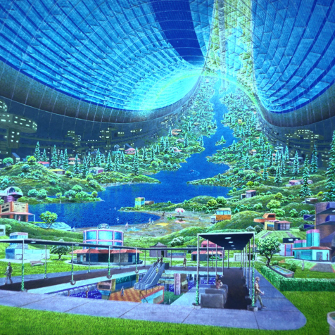 This is a picture of the Stanford torus, a space-based habitat with artificial gravity.